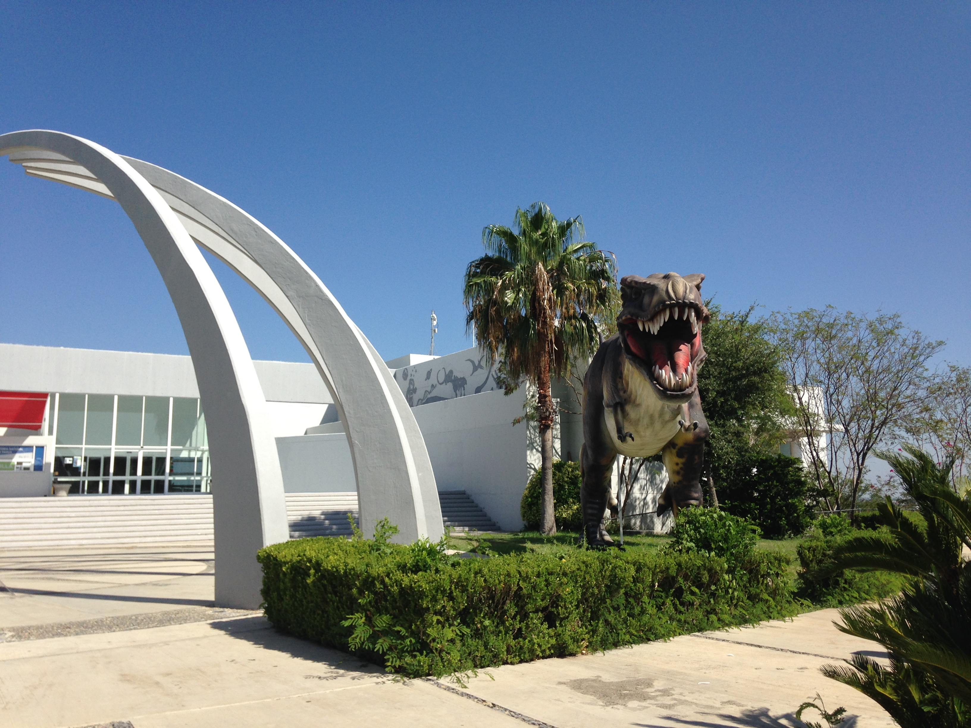 Figura de Tyranosaurus Rex en areas verdes del Museo de Historia Natural TAMUX en Ciudad Victoria